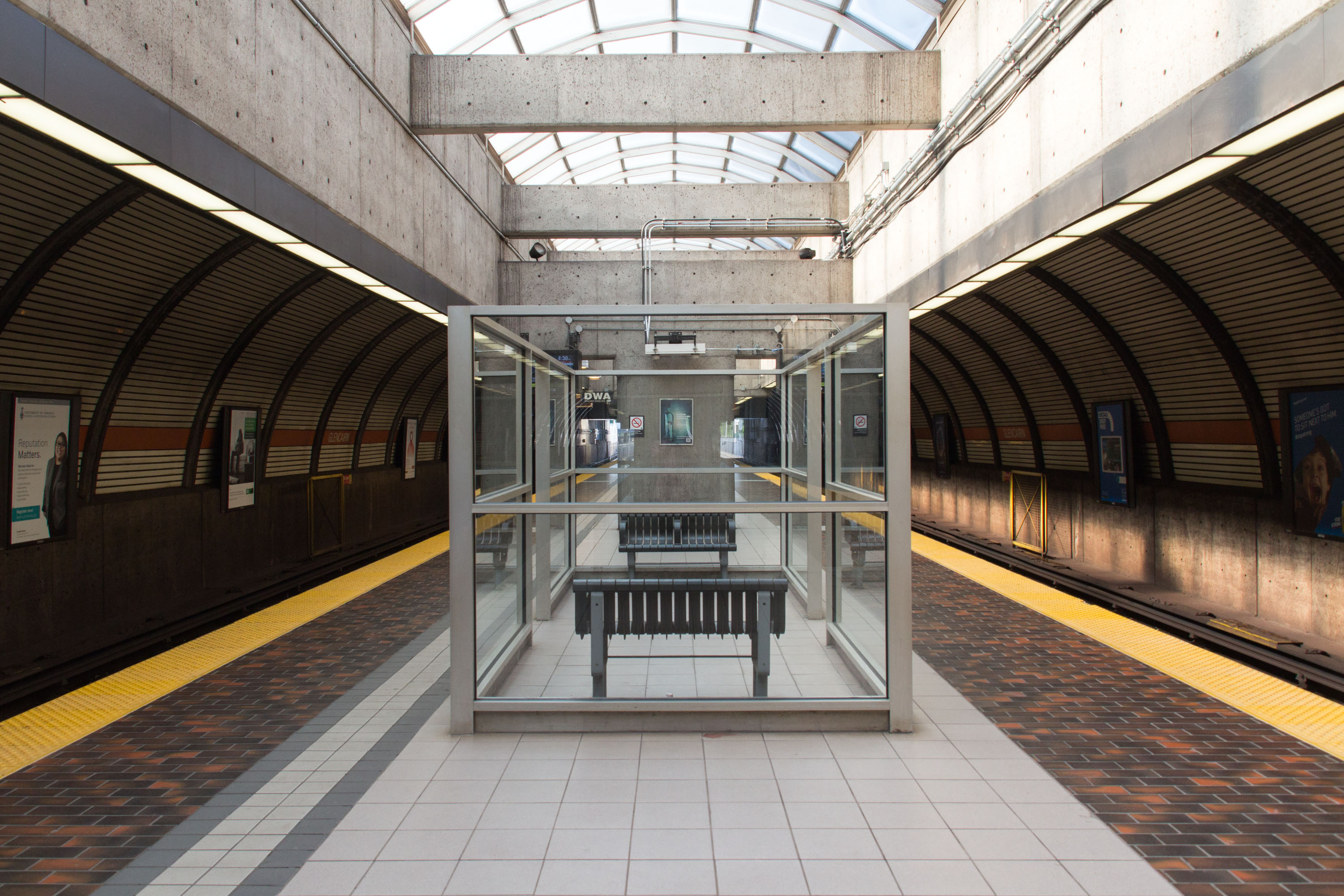 Glencairn Station Platform